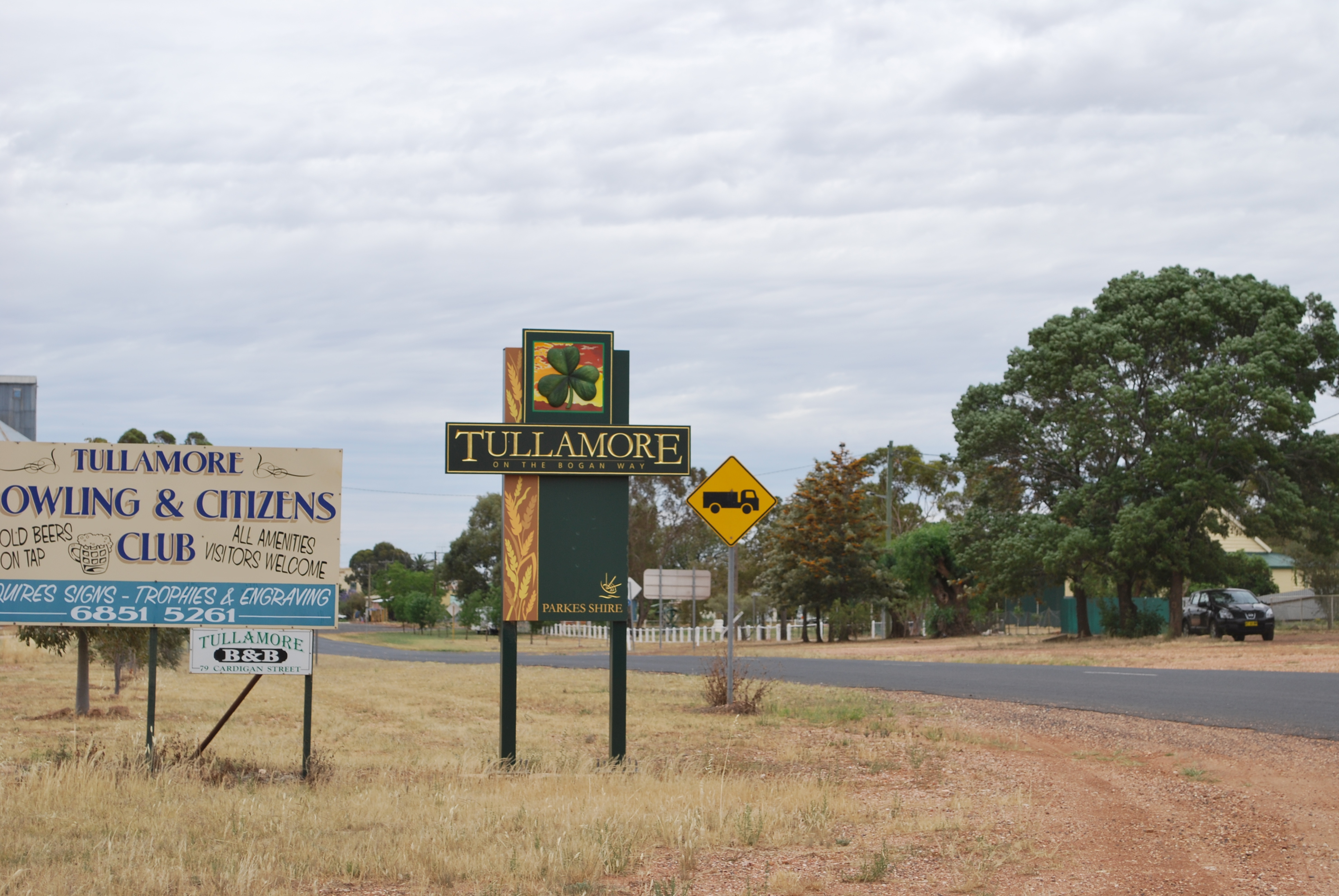 Entry sign at Tullamore, New South Wales